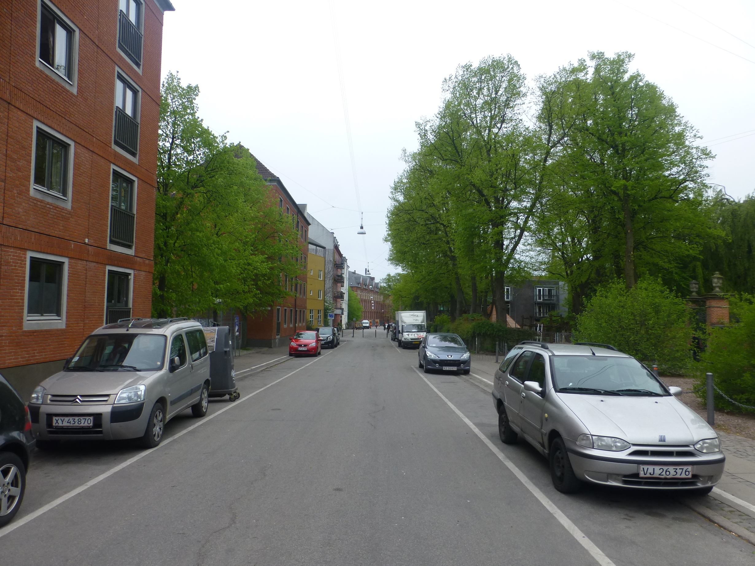 The street Kapelvej in Nørrebro in Copenhagen.